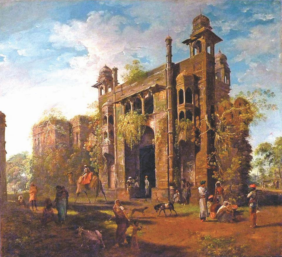 Dhaka, 1787, oil on canvas, 66 x 76 cm, by Zohann Zoffany